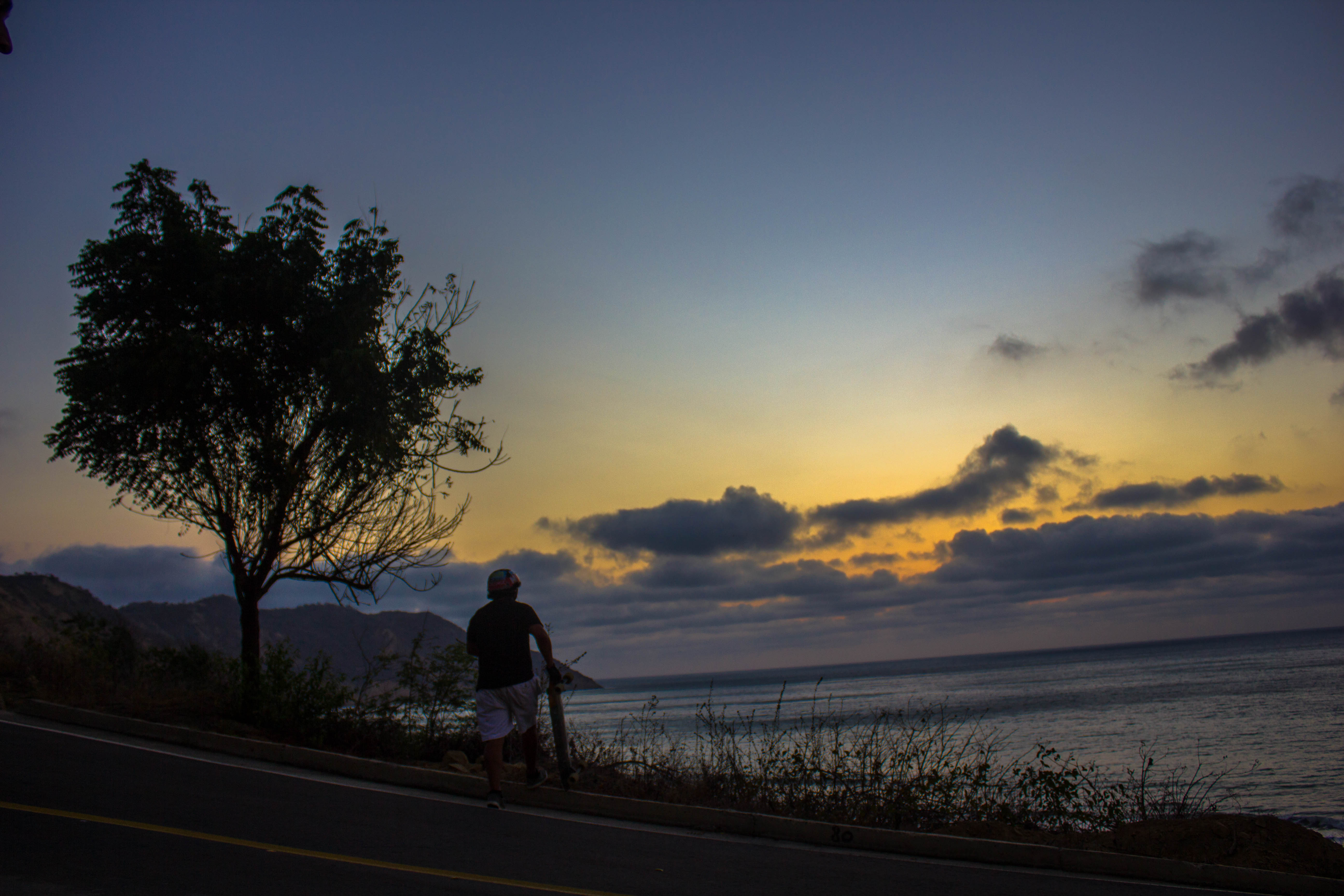 Atardecer en la playa virgen de liguiqui